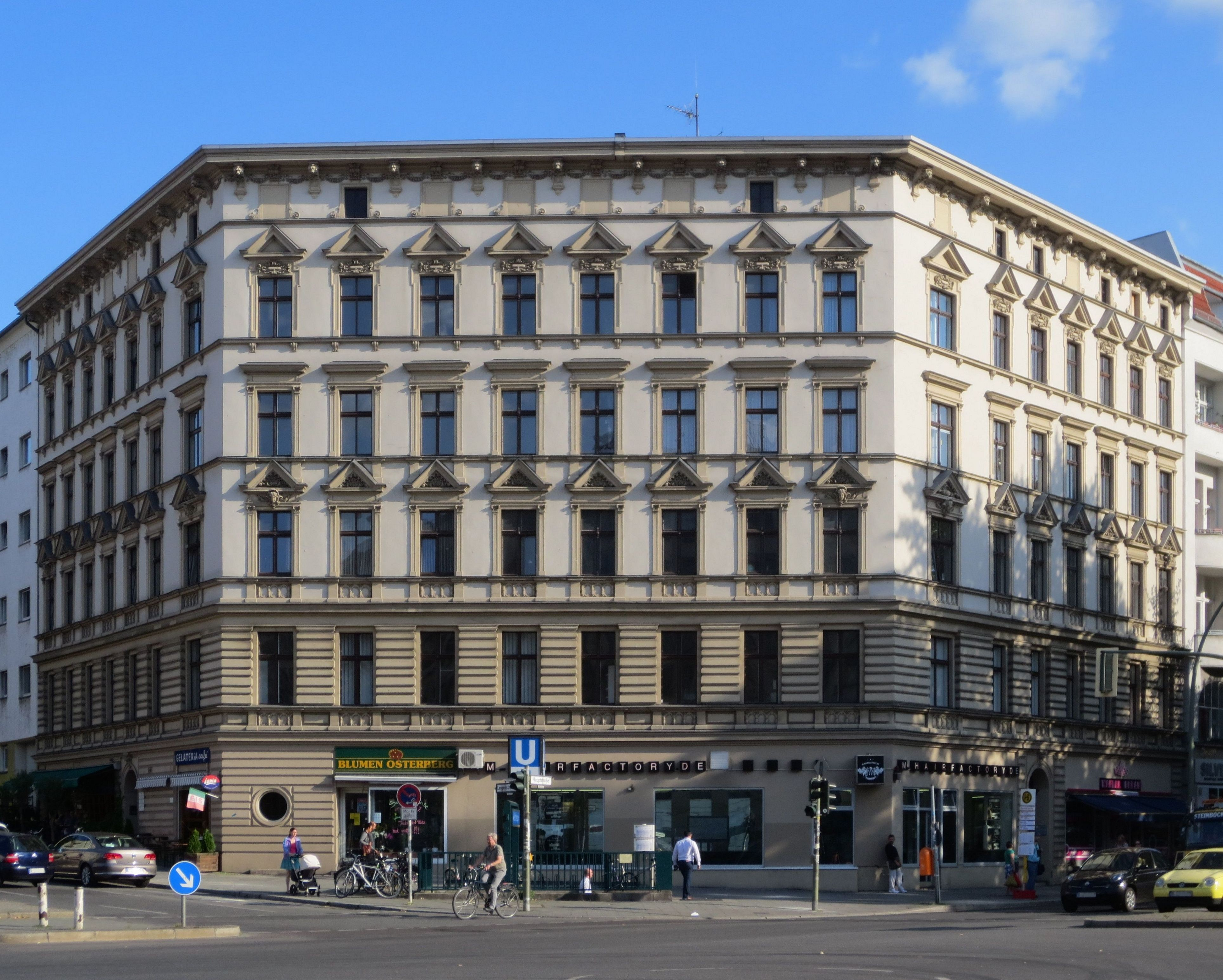 Residential building Hauptstraße No. 160, corner of Langenscheidtstraße No. 1 (on the left), in Berlin-Schöneberg. The house was built in 1892 by Rudolf Denke. It has been designated as a cultural heritage monument.